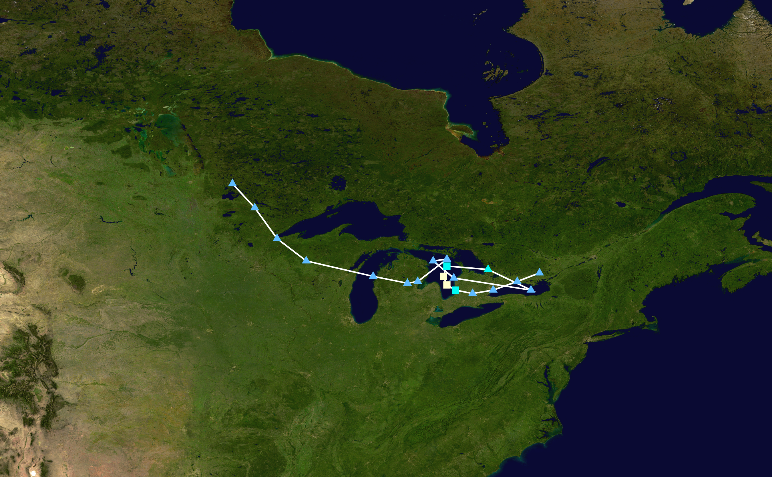 Track map of 1996 Lake Huron cyclone of the 1996 Atlantic hurricane season. The points show the location of the storm at 6-hour intervals. The colour represents the storm's maximum sustained wind speeds as classified in the Saffir–Simpson scale (see below), and the shape of the data points represent the nature of the storm, according to the legend below. Saffir–Simpson scale Tropical depression≤38 mph≤62 km/h Category 3111–129 mph178–208 km/h Tropical storm39–73 mph63–118 km/h Category 4130–156 mph209–251 km/h Category 174–95 mph119–153 km/h Category 5≥157 mph≥252 km/h Category 296–110 mph154–177 km/h Unknown Storm type Tropical cyclone Subtropical cyclone Extratropical cyclone / Remnant low / Tropical disturbance / Monsoon depression